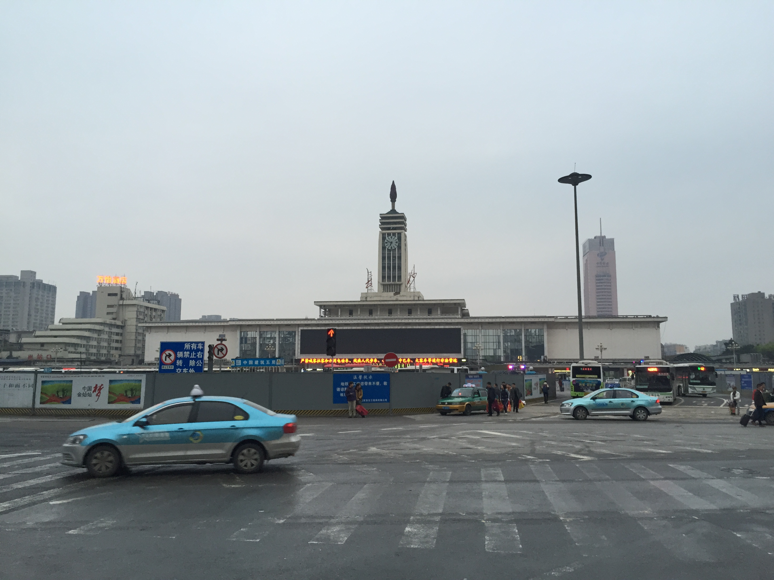 Some constructions remain here.